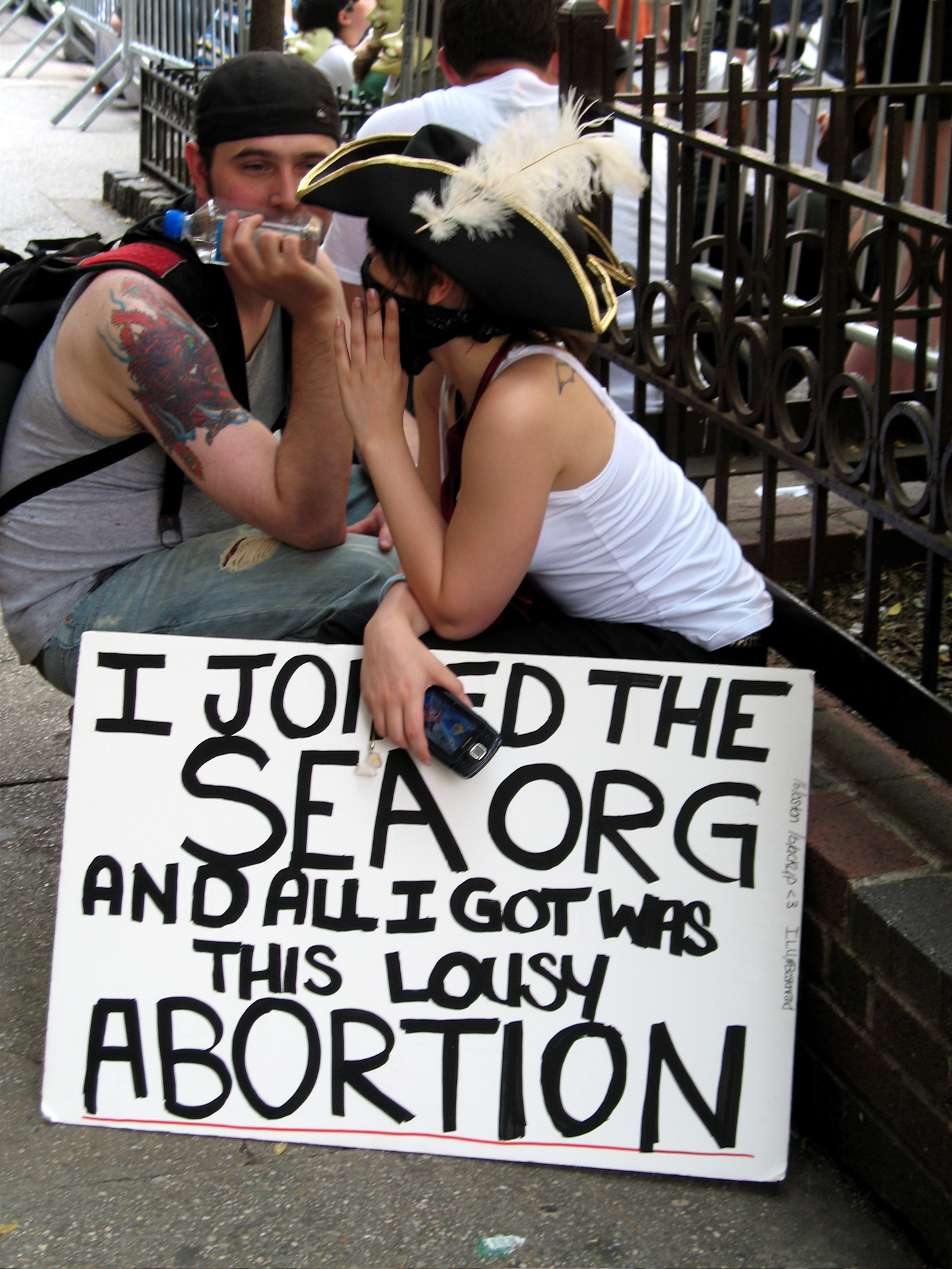 AND ALL I GOT WAS THIS LOUSY ABORTION.... Anonymous at the Sea Org in NYC, protesting the Church of Scientology